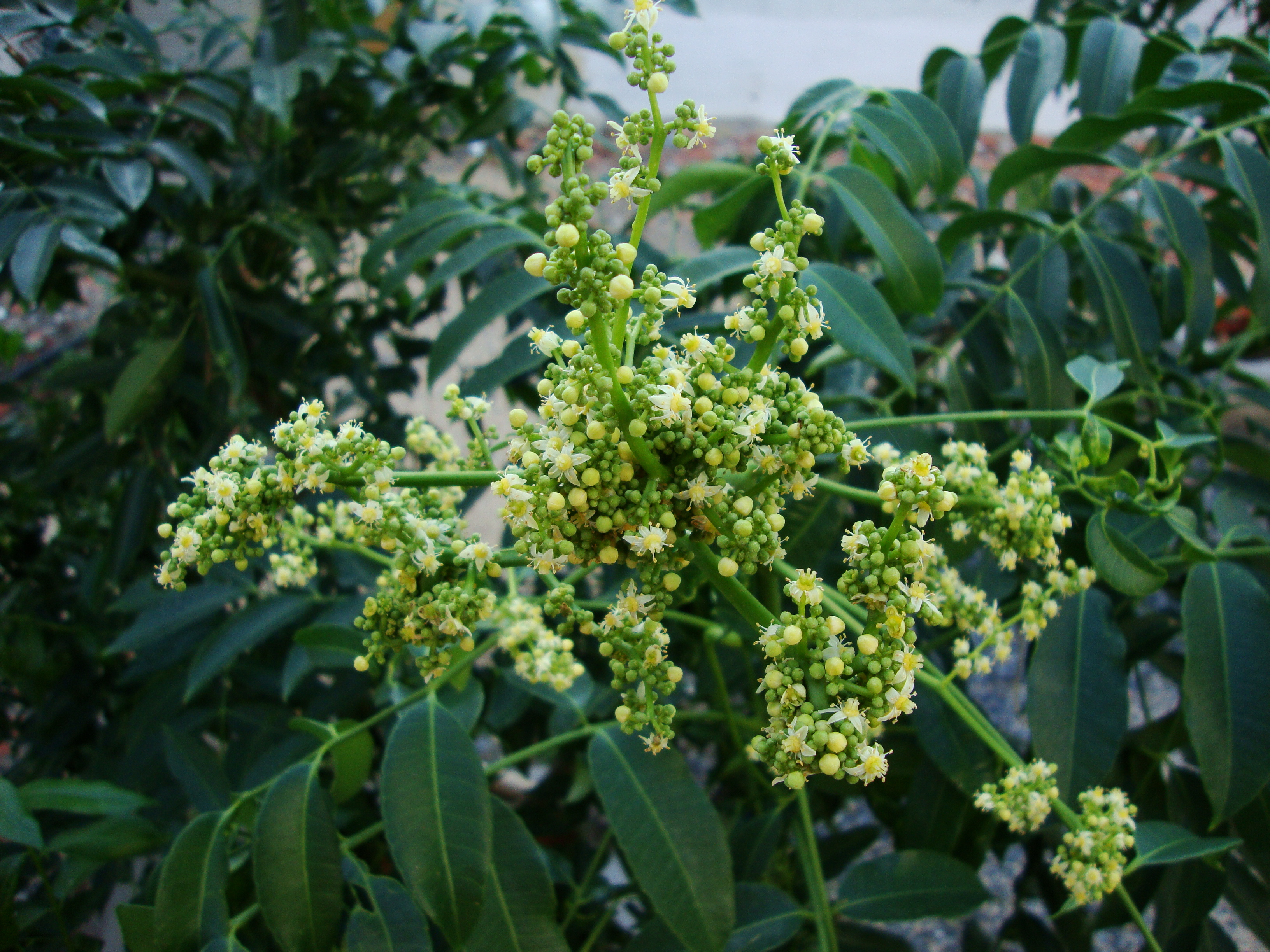 Spondias dulcis Sol. ex Parkinson, 1773